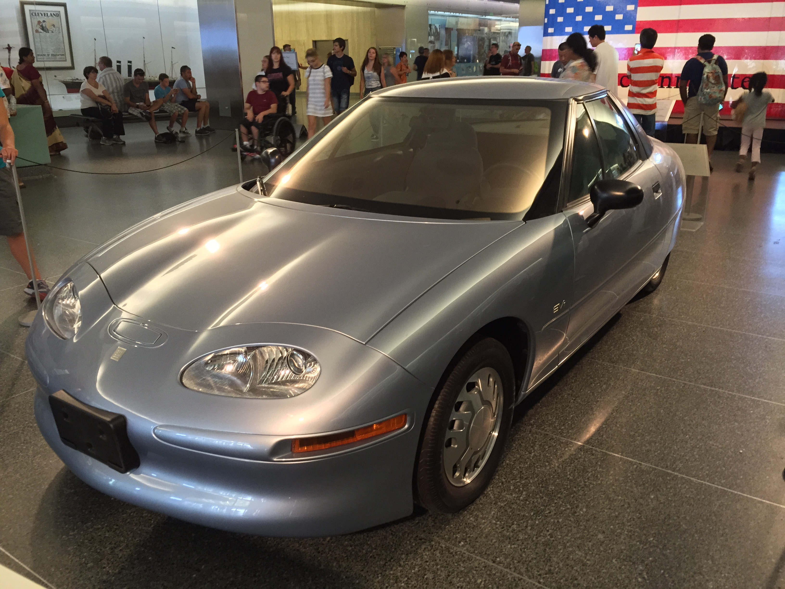 1997 General Motors EV1 on exhibit at the Smithsonian National Museum of American History in Washington, DC.